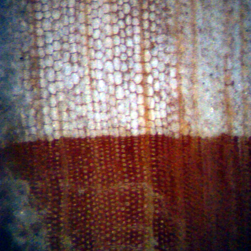 Tree ring of Larix decidua (European Larch). The size of the image is 1.35 mm.